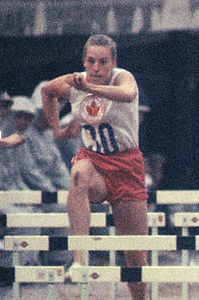 Jenny Meldrum in a 80 m preliminary at the 1964 Olympics